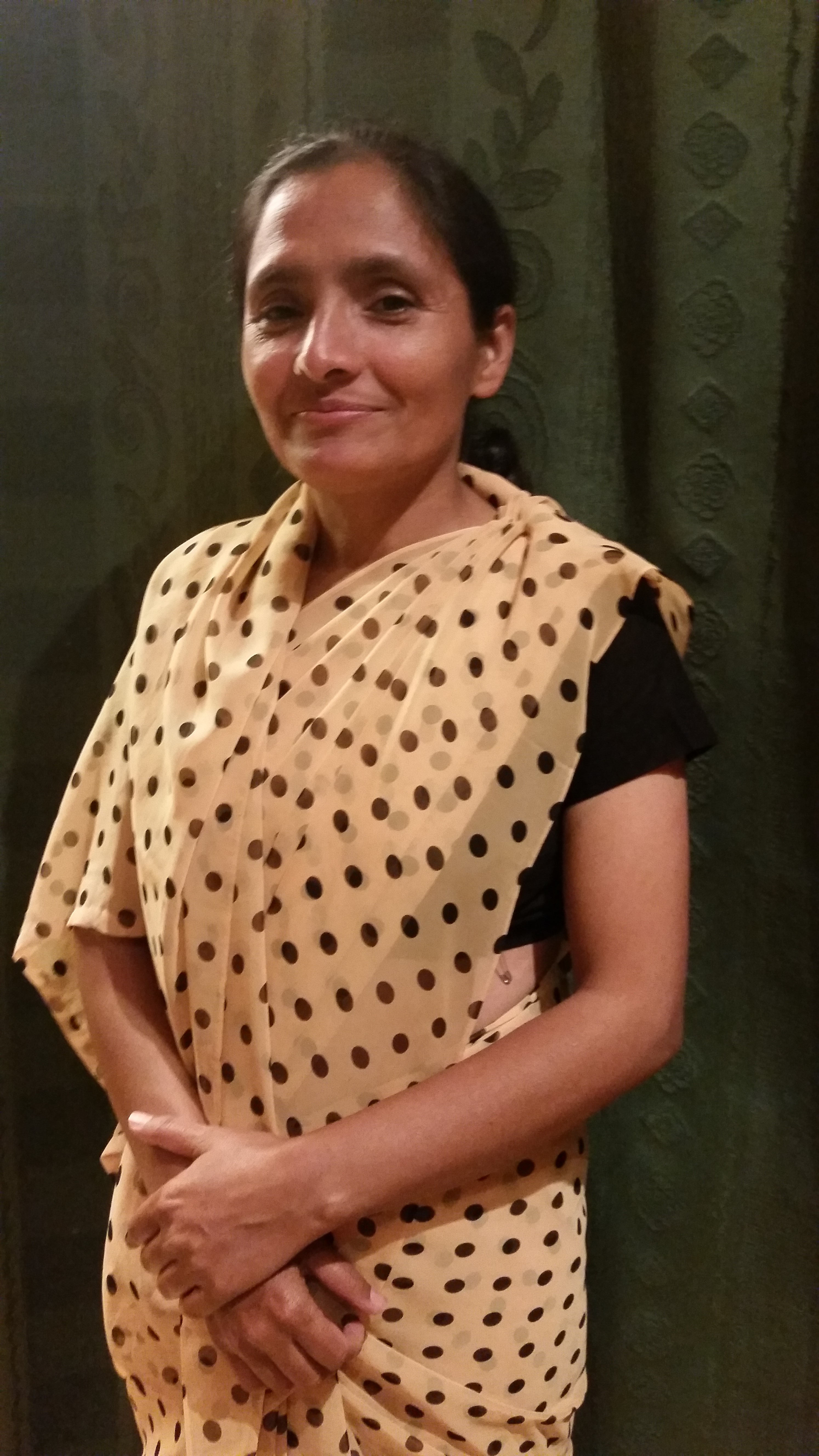 Radha Paudel in Oslo, Norway during a visit to talk at a Norwegian Agency for Development Cooperation conference.